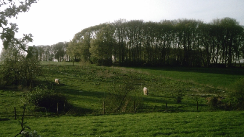 Cows in Bötzlöh with a small beechwood of Bockerter Heide nature reserve near Viersen, Germany